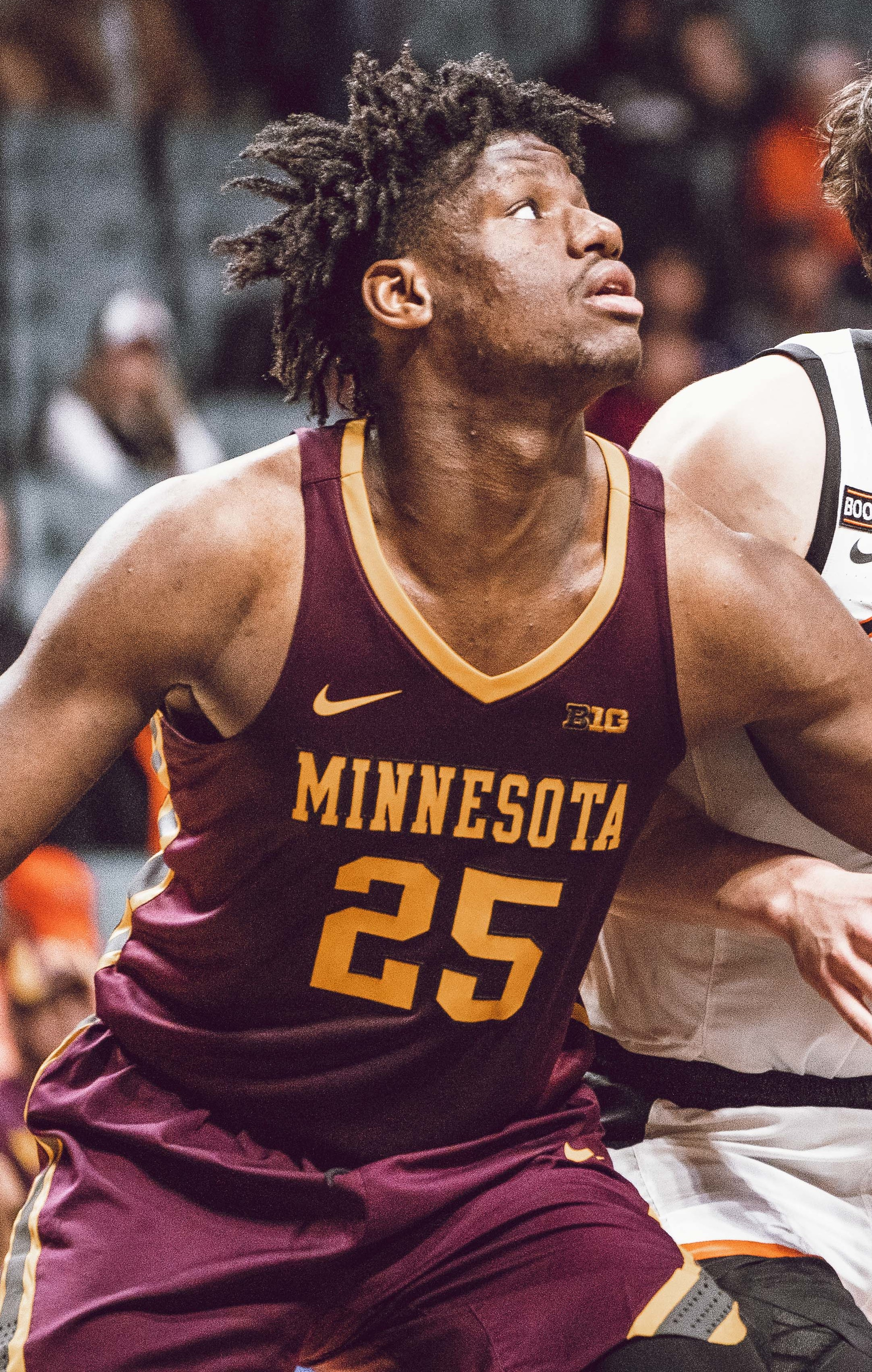 Image Taken At Oklahoma State Cowboys vs Minnesota Golden Gophers Basketball Game, Saturday, December 21, 2019, BOK Center, Tulsa, OK. Courtney Bay/OSU Athletics